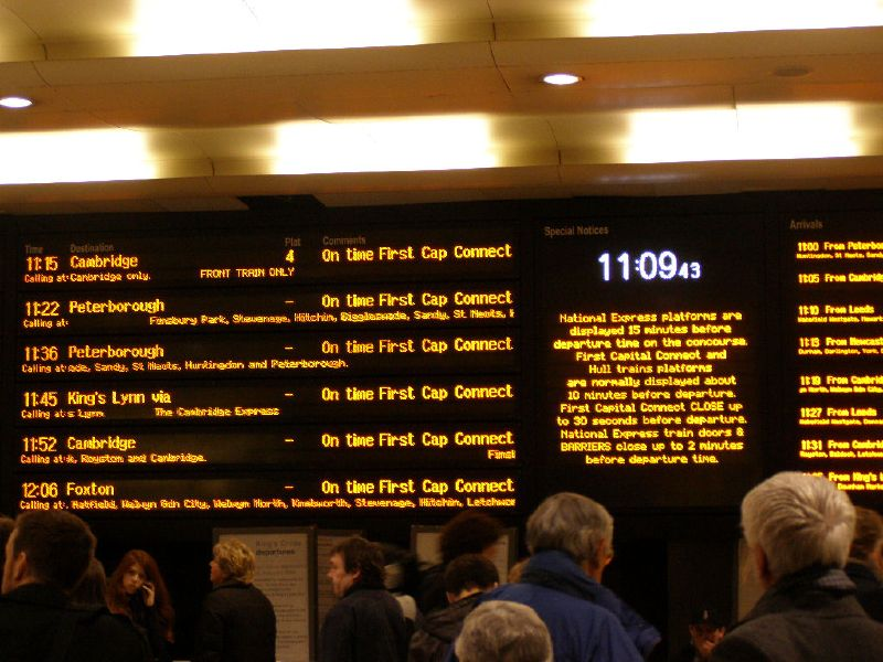 Kings Cross, London - The departures board at Kings Cross Station